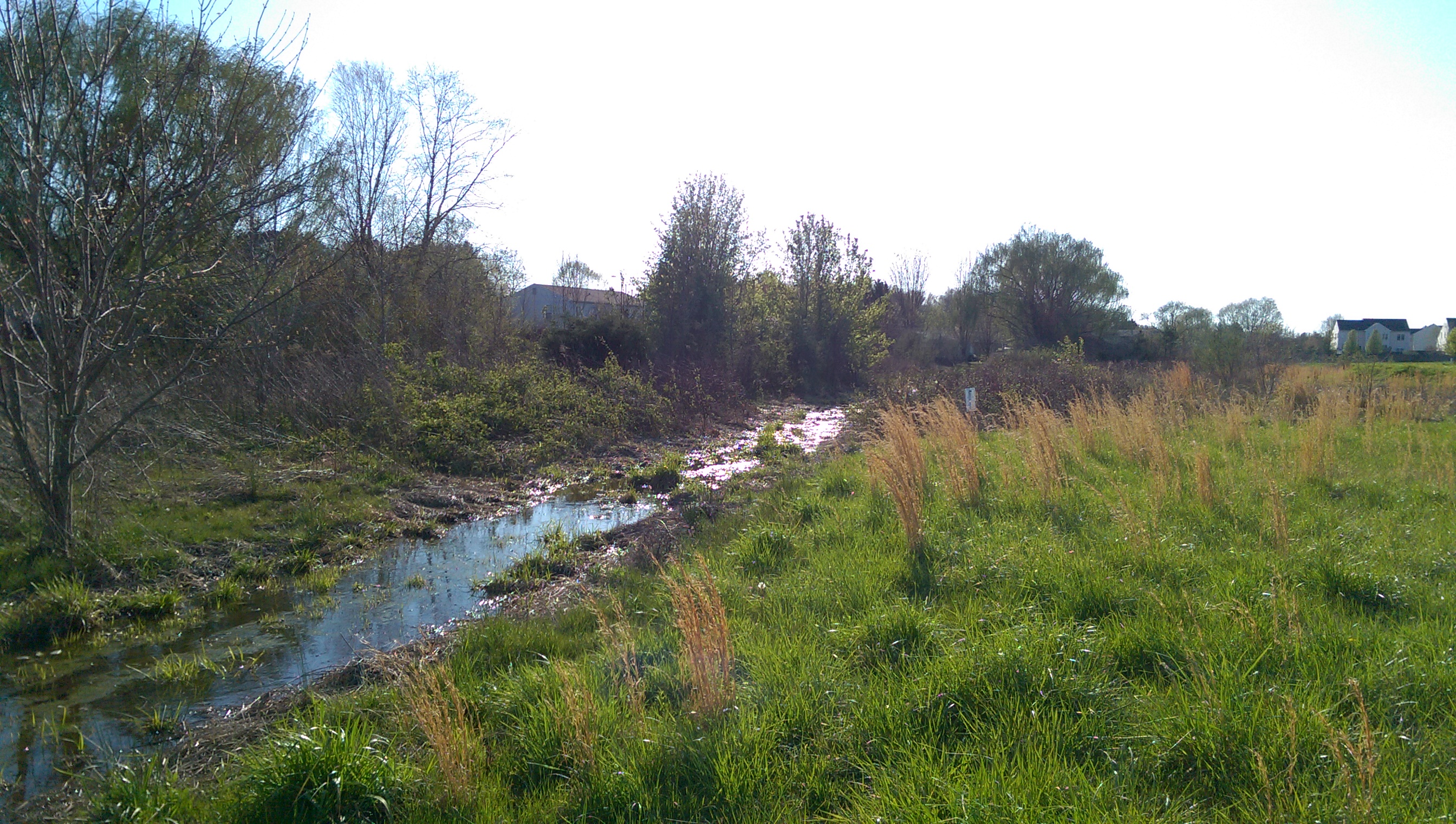 we